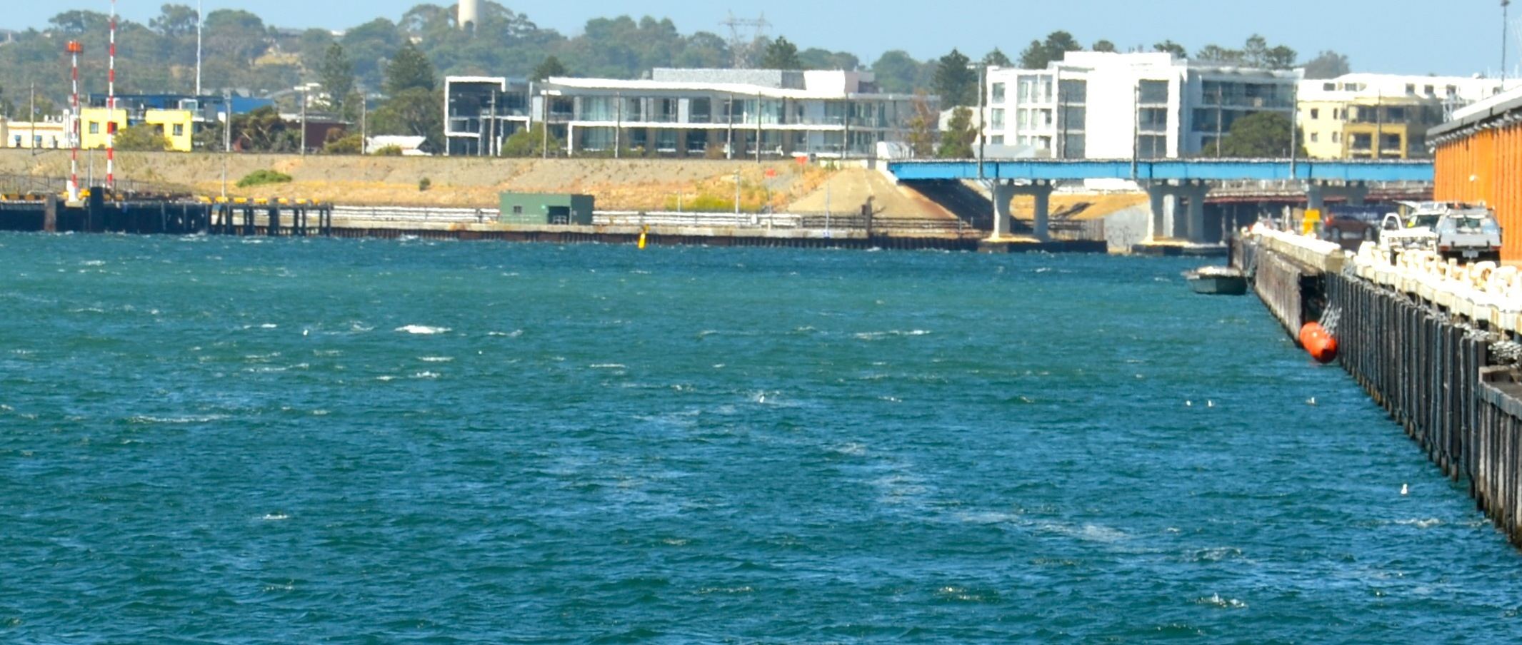 Victoria Quay and North Fremantle Railway Bridge northside approach